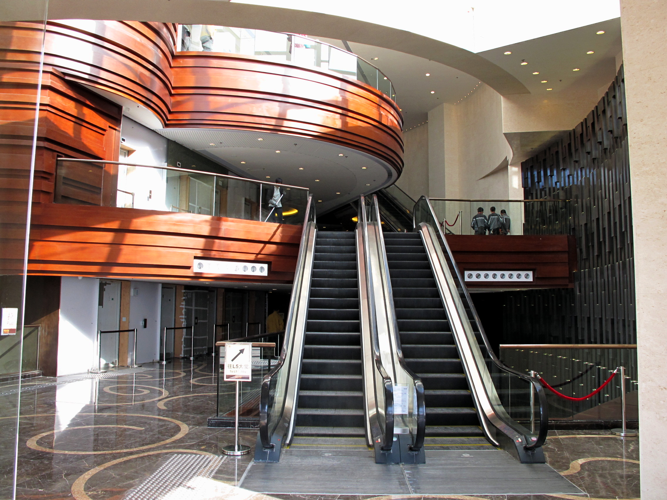 Lohas Park Phase 2 Le Prestige Lobby 日出康城